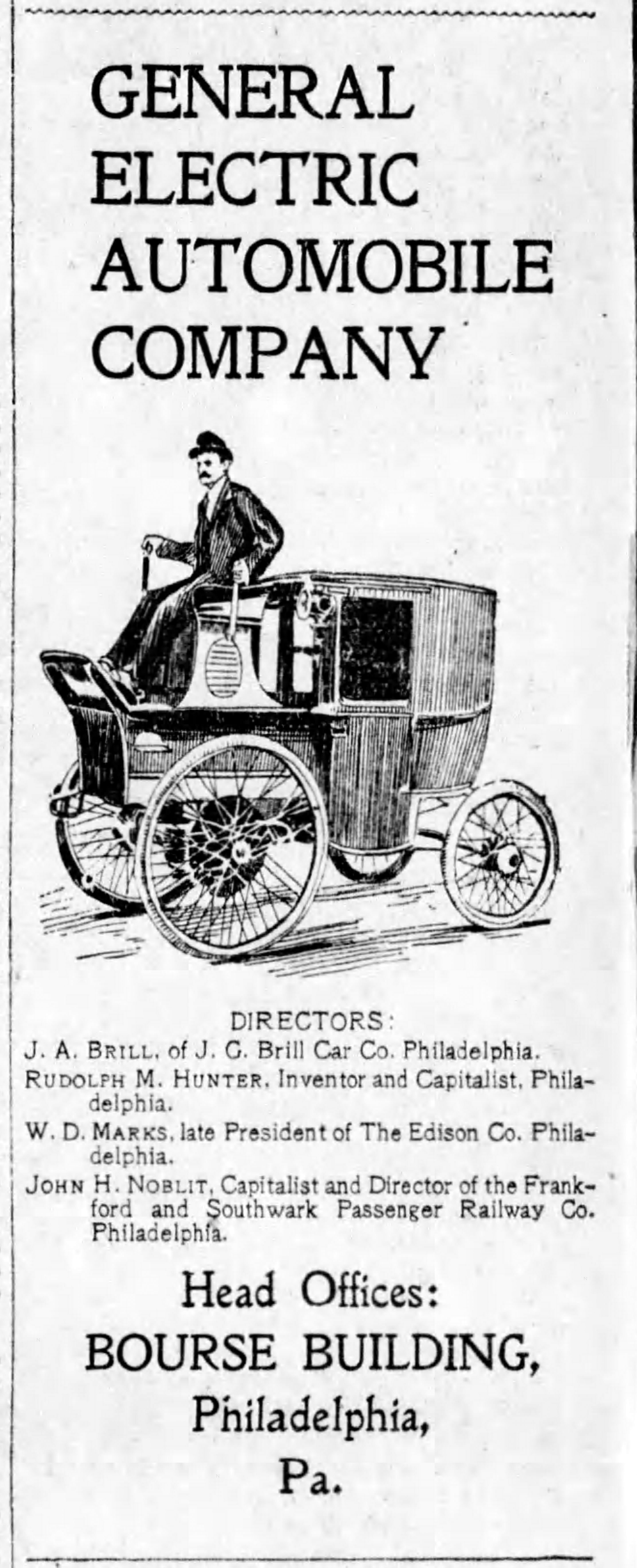 Newspaper ad for General Electric Automobile Company naming the company's original directors, including Rudolph M. Hunter; The Philadelphia Times, June 9, 1898, p. 8.